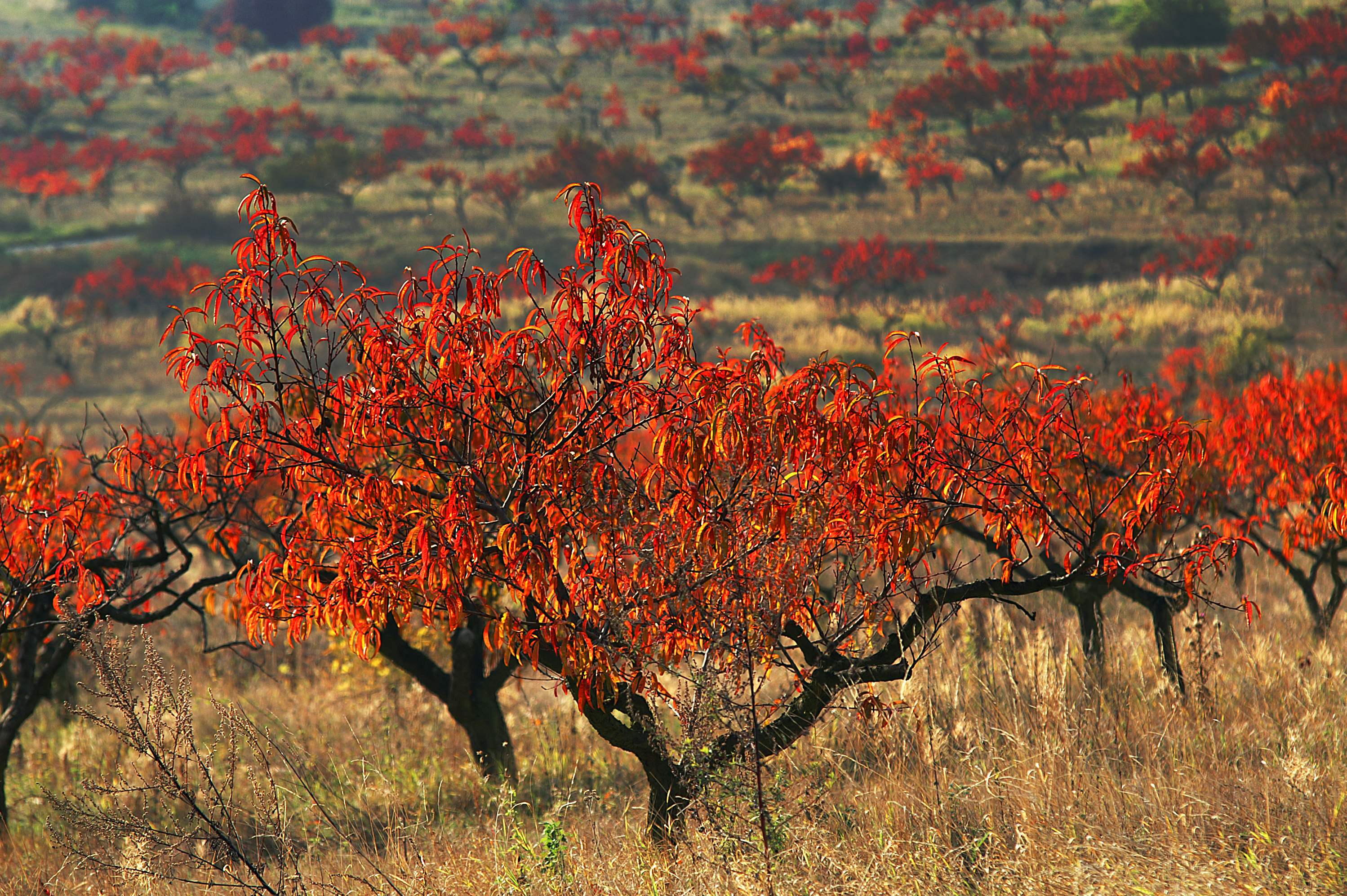 The peaches orchard nearby Kutna Hora.